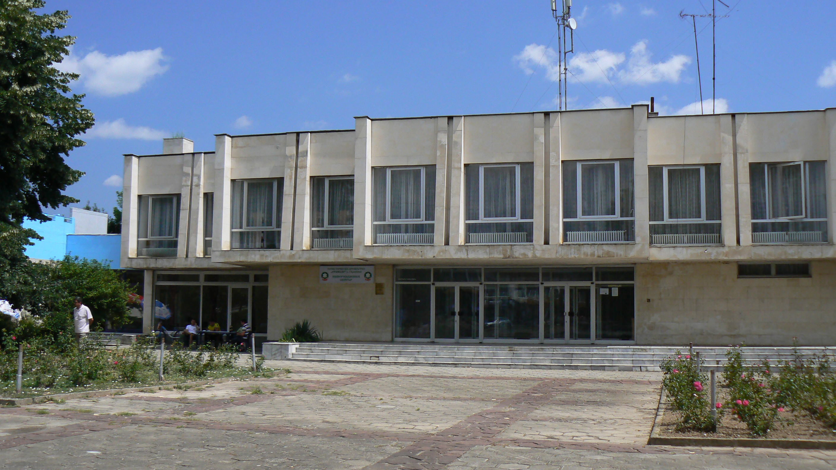 Chitalishte "19th February" in village Skravena, Bulgaria